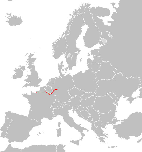 The European route 44